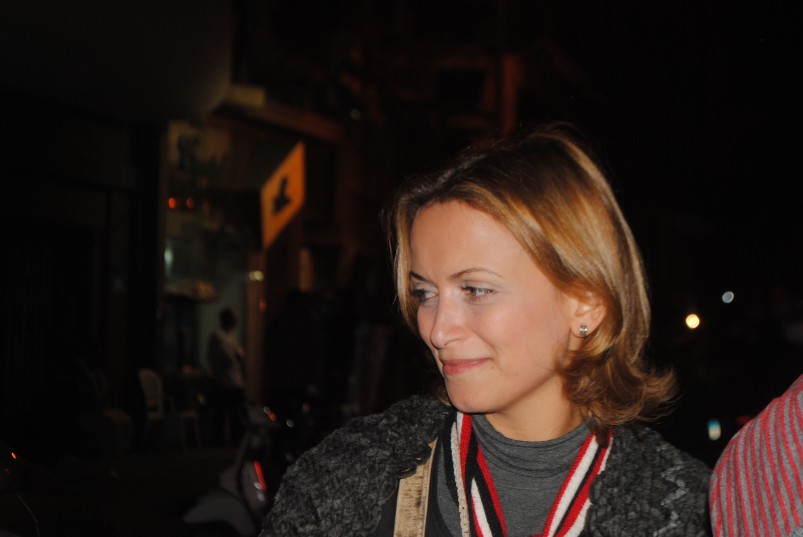 Zahra, sister of Khaled Said